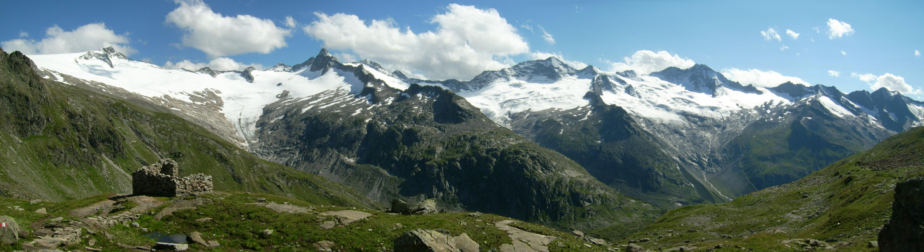 Panorama with glaciers Schwarzensteinkees, Hornkees and Waxeggkees